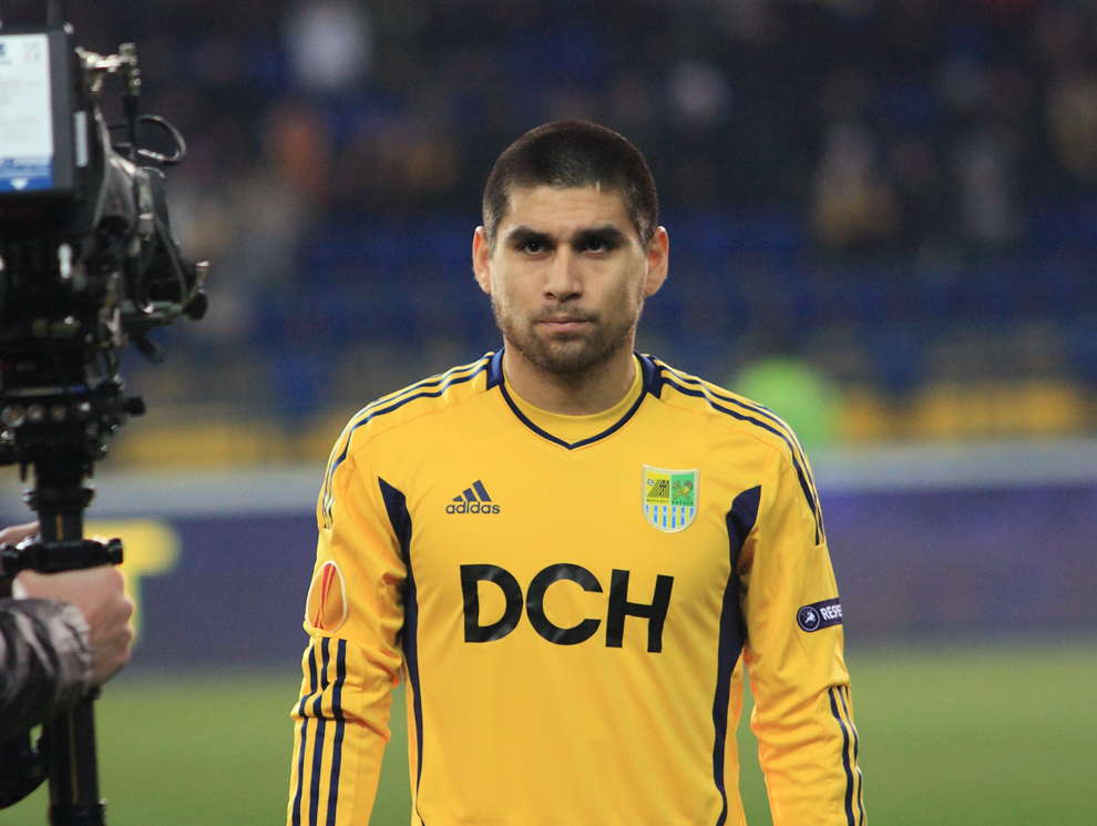 Villagra